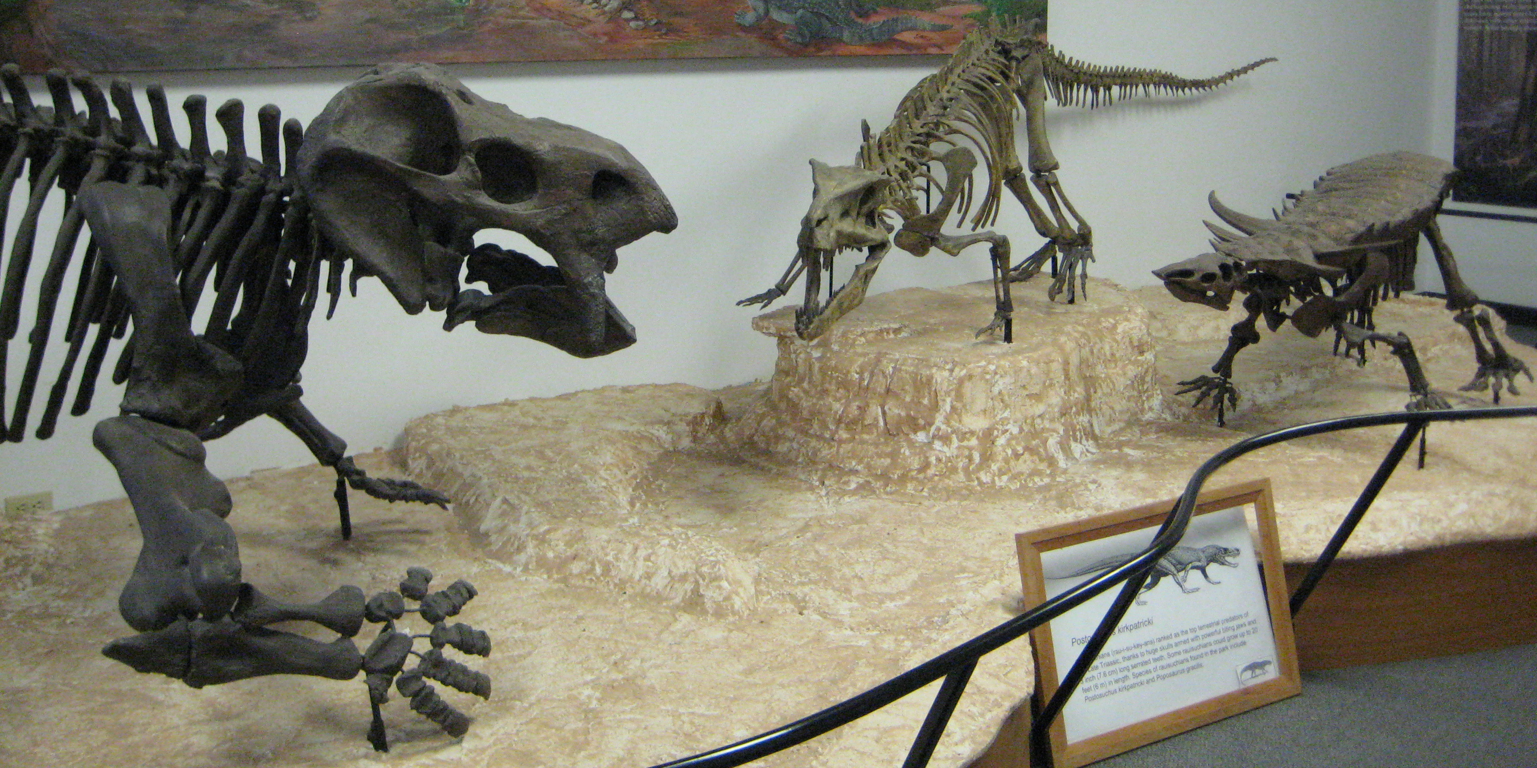 Reptiles Found In The Area 225 Million Years Ago In Late Triassic Period. Placerias, Postosuchus kirkpatricki and Desmatosuchus.